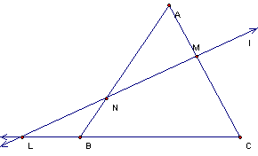 Menelaus Theorem example